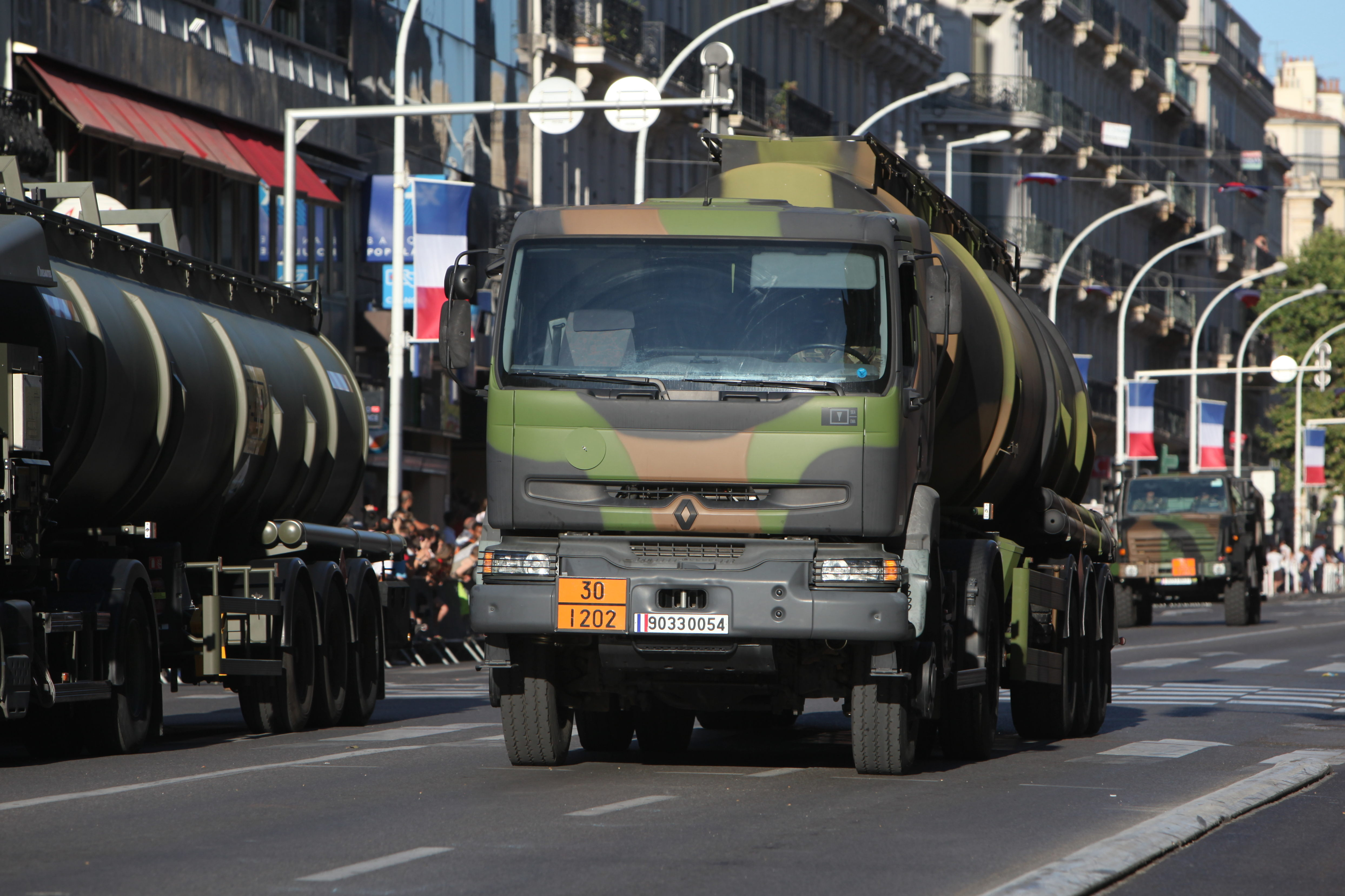 Members of the Service des essences des armées during the parade of the 14th of July 2011 in Toulon